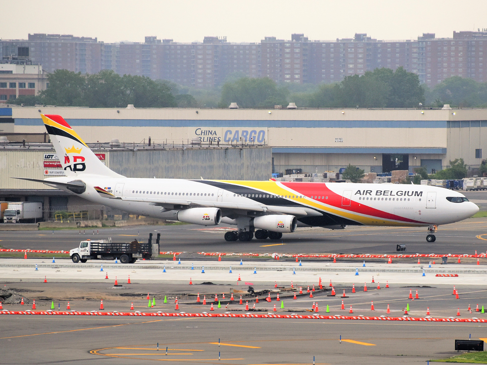 Operating for LOT Polish Airlines, an Air Belgium Airbus A340-300 is taxiing for departure at John F. Kennedy International Airport.